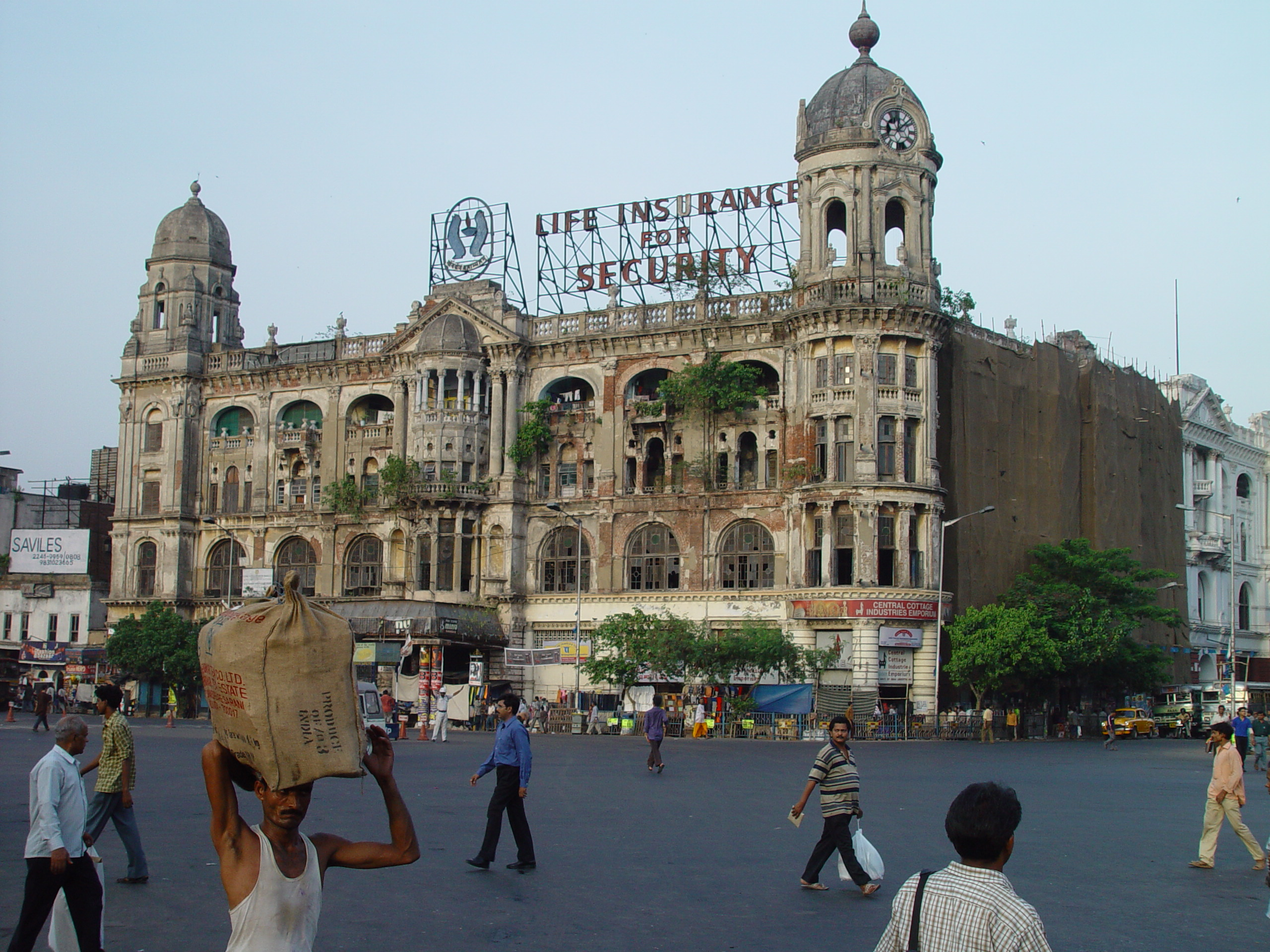 Previously known as Whiteways and Laidlaw Building (corresponding to Harrods of London or Saks of New York), this British built edifice is witness to the city's monumental decay. Attempts are on to renovate it as a heritage site. Mjanich has taken this photo himself in mid 2004 with my own Sony DSC-707.